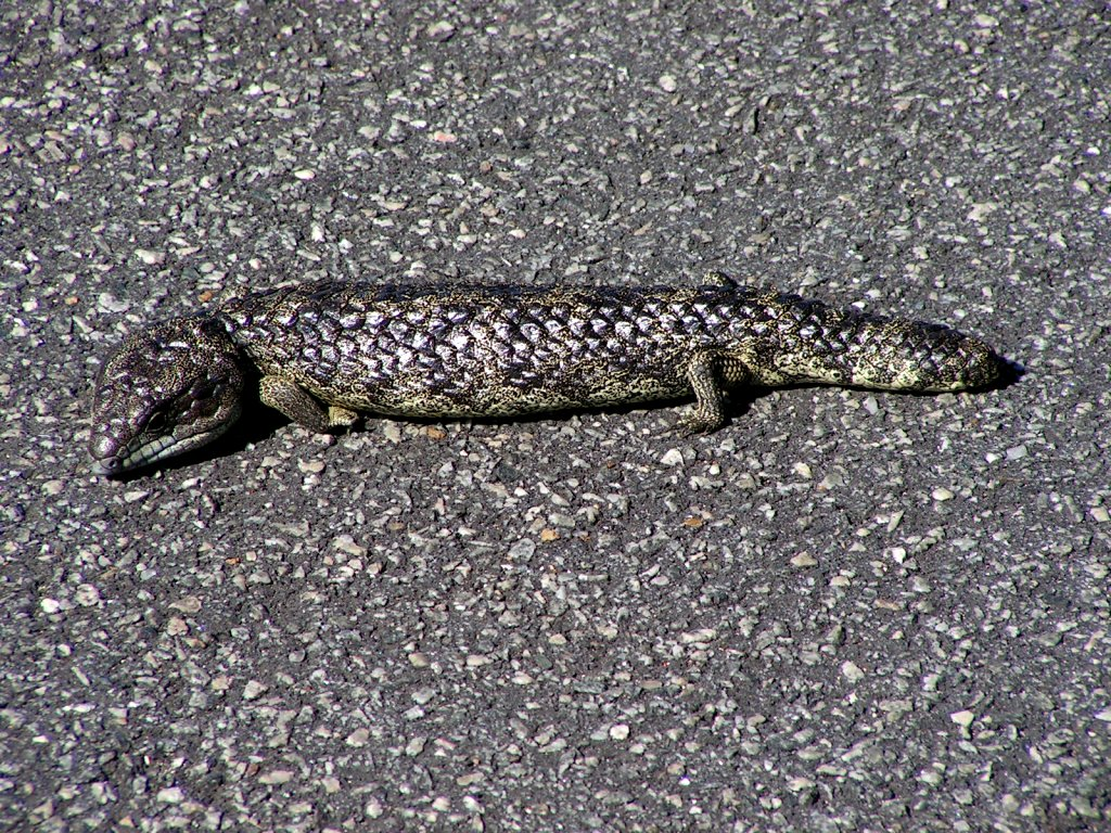 Rottnest Island Shingleback (Tiliqua rugosa konowi), sunning on road, Rottnest Island, Western Australia